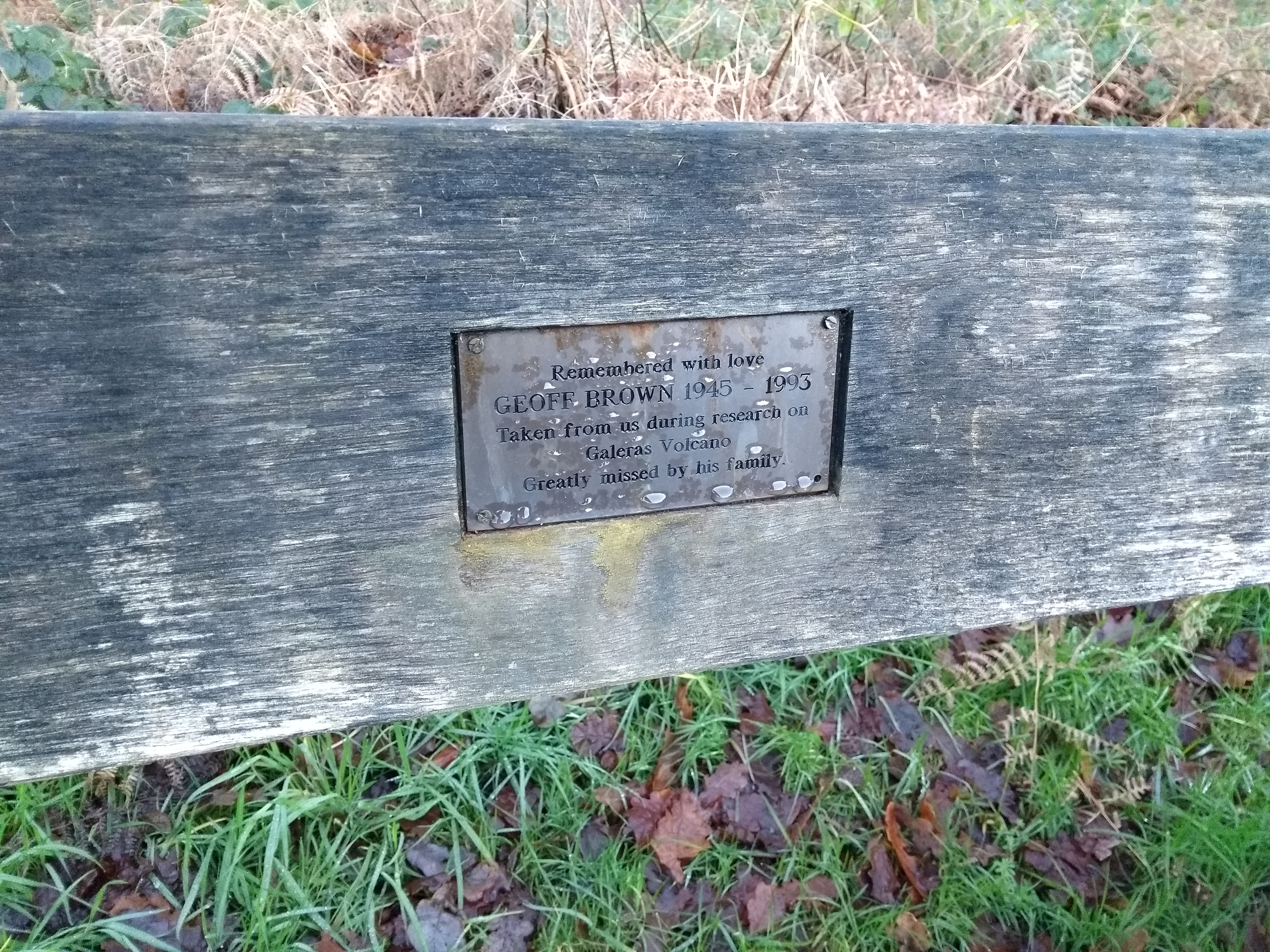 Remembered with love GEOFF BROWN 1945 - 1993 Taken from us during research on Galeras Volcano Greatly missed by his family.